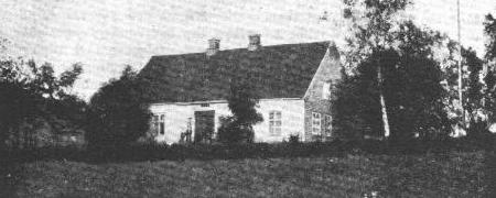 Østre Kjøle, Nøtterøy (ca. 1920)